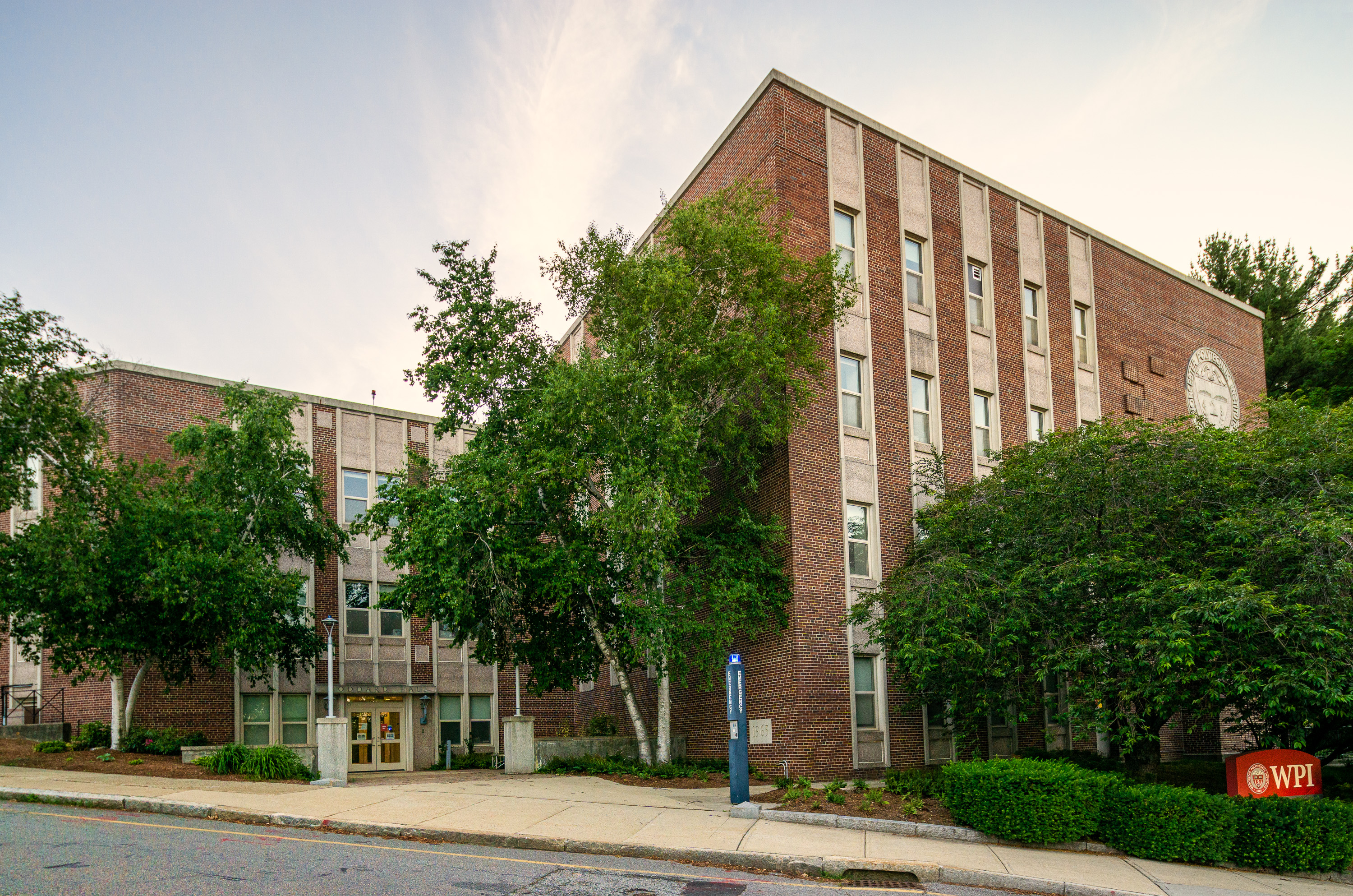 Goddard Hall, built 1965 for Chemistry and Biochemistry, and Chemical Engineering. Renovated 2008. Named for graduate Robert Goddard.